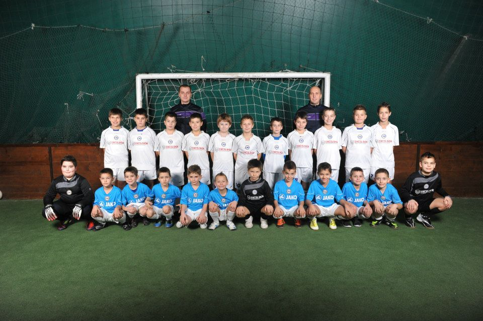 Football club Sporting